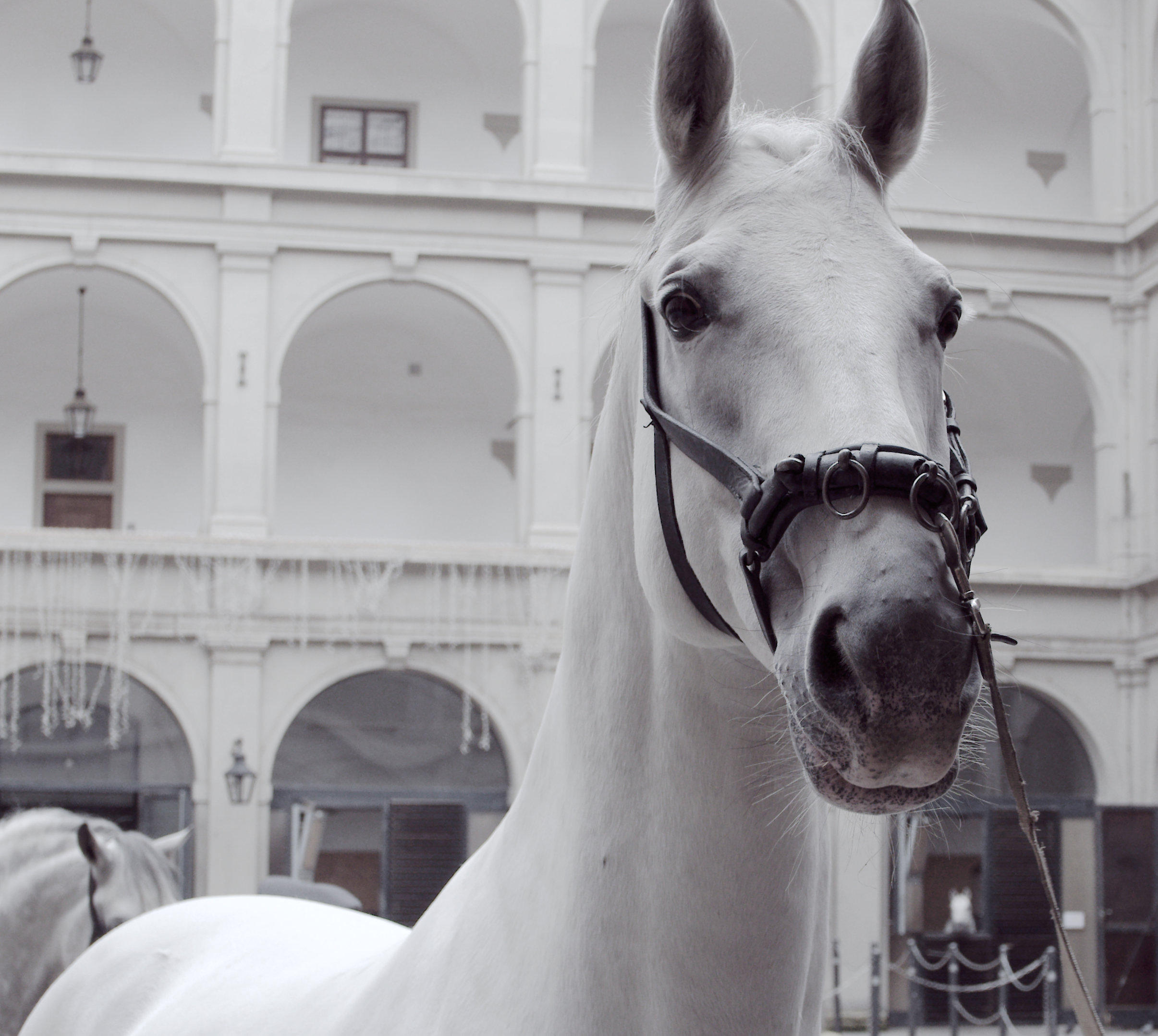 Head of a lipizzaner stallion from the Spanish Riding School in Vienna. The horse is wearing a cavesson.